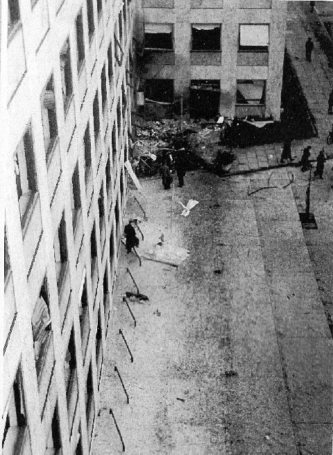 Aarhus Raadhus bombing, 1945.